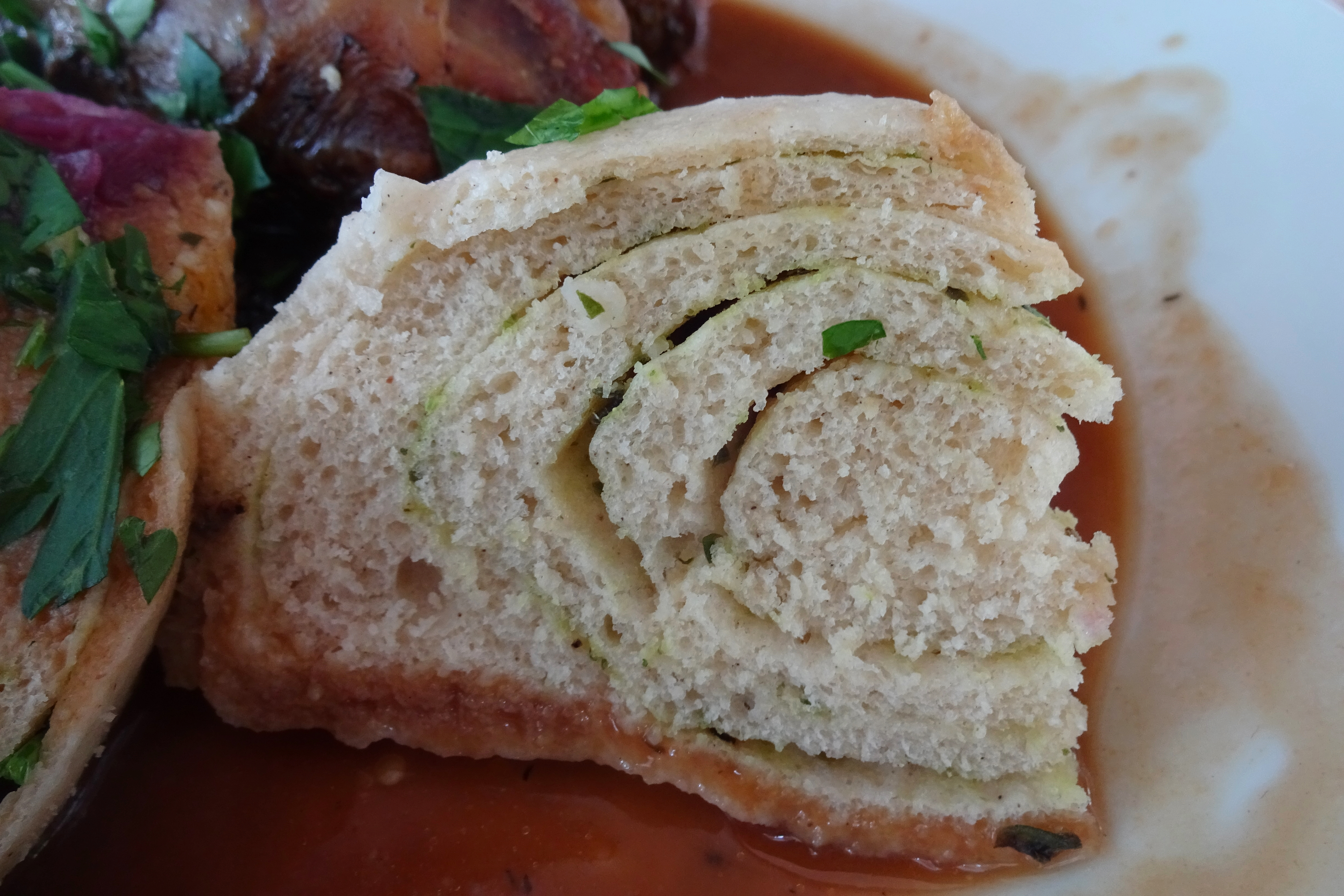 Wickelkloß: The wrapped dumpling is spread with butter, sprinkled with marjoram and then wrapped. The dumpling dough consists of a yeast dough. Photographed in the Fährhaus Caputh.